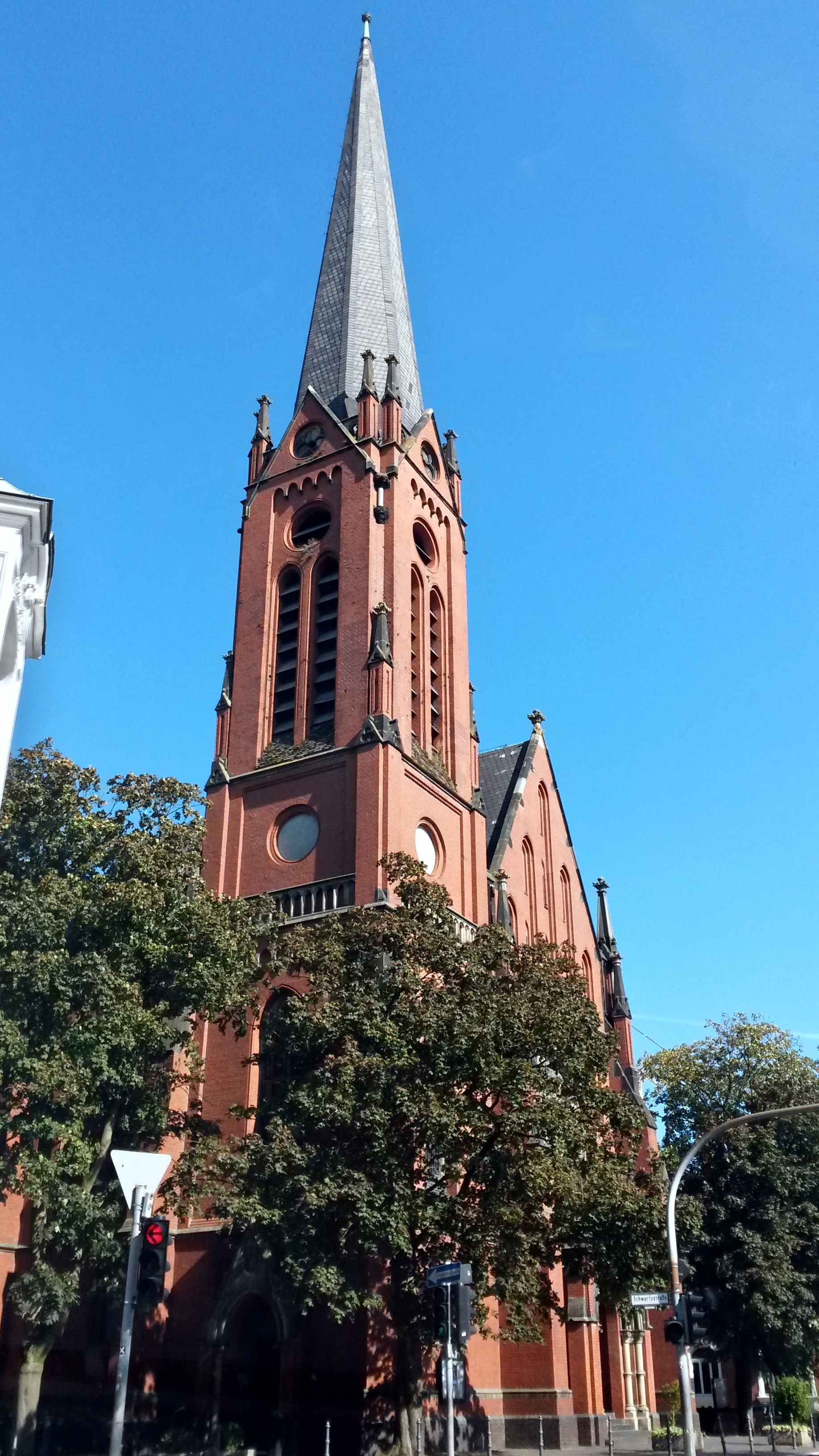 Protestant church "Christuskirche" in Bocholt (Germany). The belltower an a part of the nave are seen.